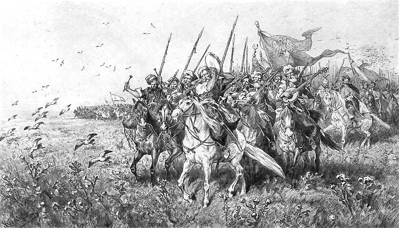 Campaign of Chmielnicki and Tuhaj Bej